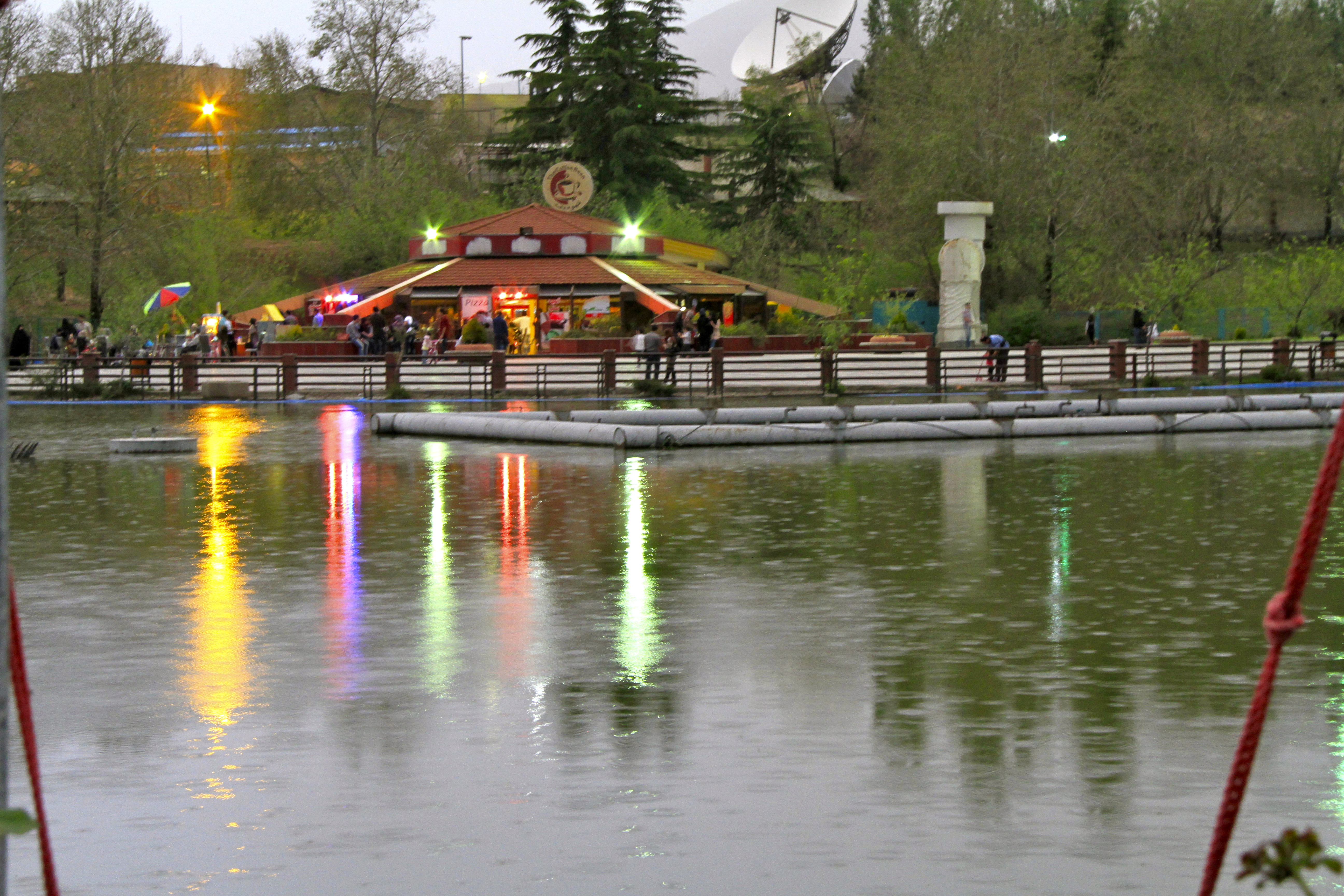 Melat Park Tehran Lake پارک ملت تهران خ ولی عصر